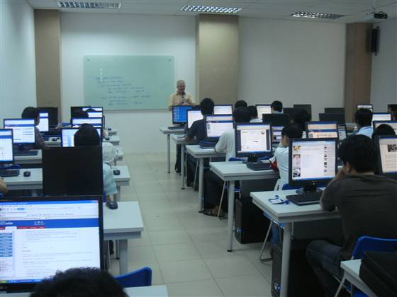 Lớp cử nhân quốc tế ngành CNTT